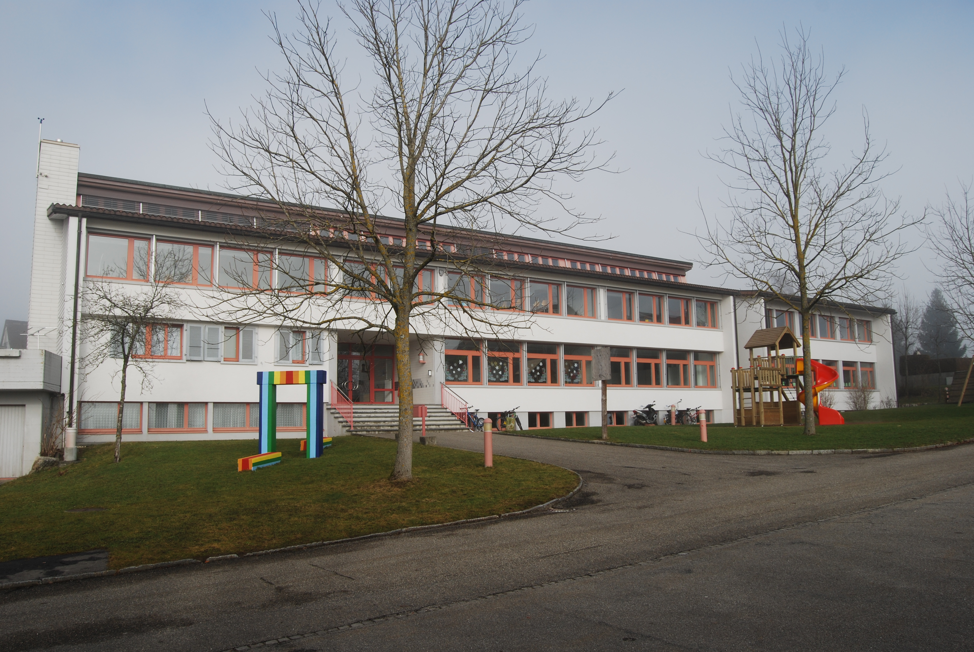 School of Aedermannsdorf, canton of Solothurn, SwitzerlandEsperanto: Lernejo de Aedermannsdorf, Kantono Soloturno, Svislando